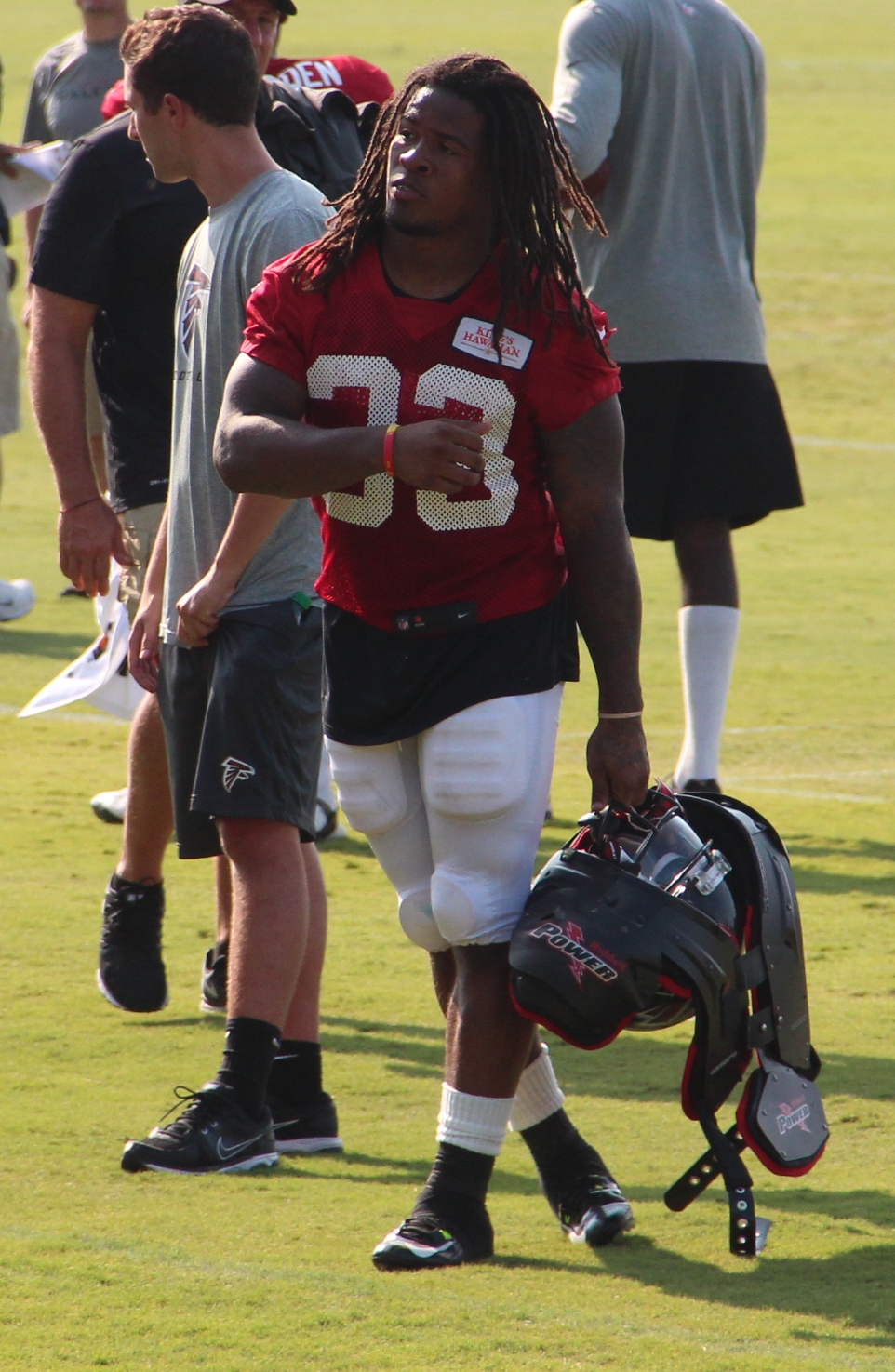 Devonta Freeman in 2014